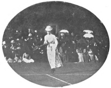 Helena "Lena" Rice (1866-1907), Irish tennis player, Wimbledon champion in 1890